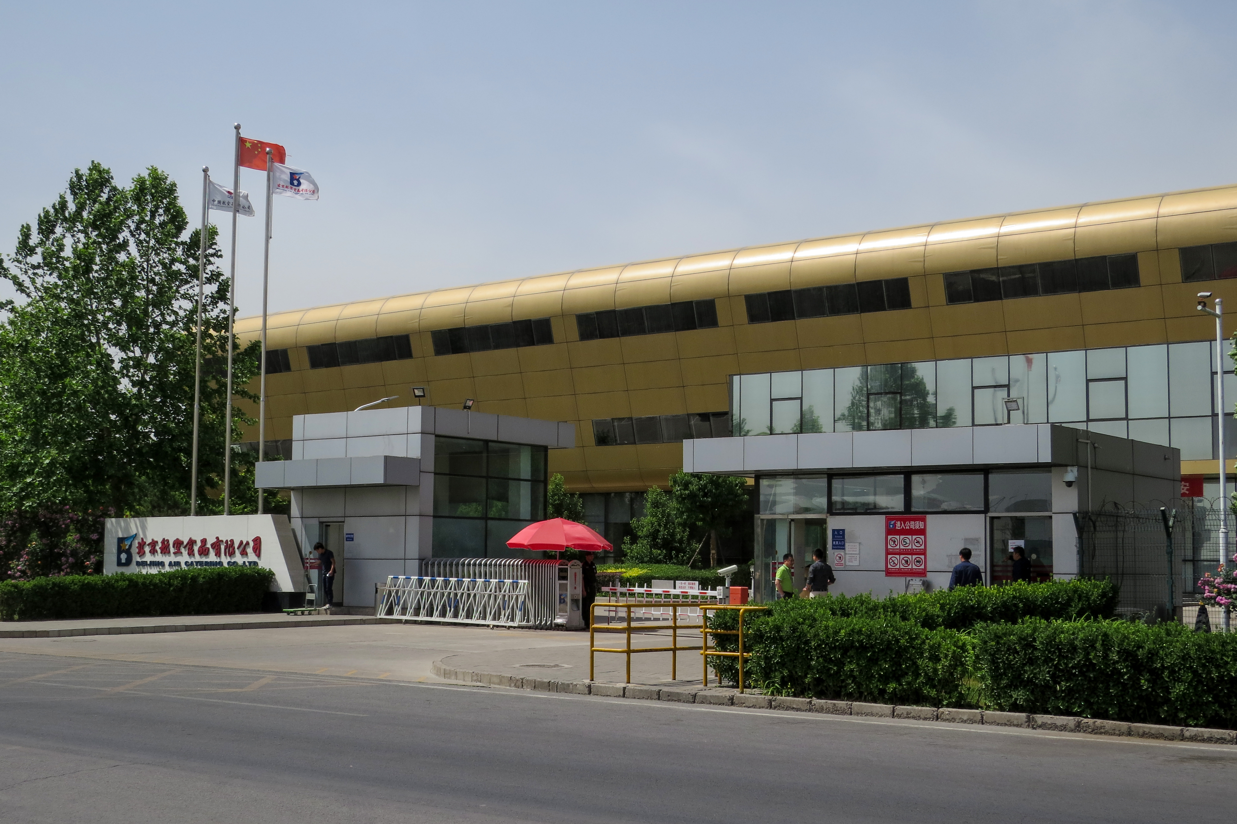 Established on 1 May 1980, it's the first joint-venture company in mainland China.